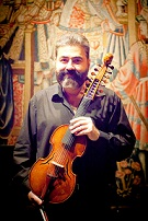 Giving the North American premiere of an Anonymous Concerto for Viola d'amore (c.1750 Poland), Bass Museum of Art, Miami, Florida, USA